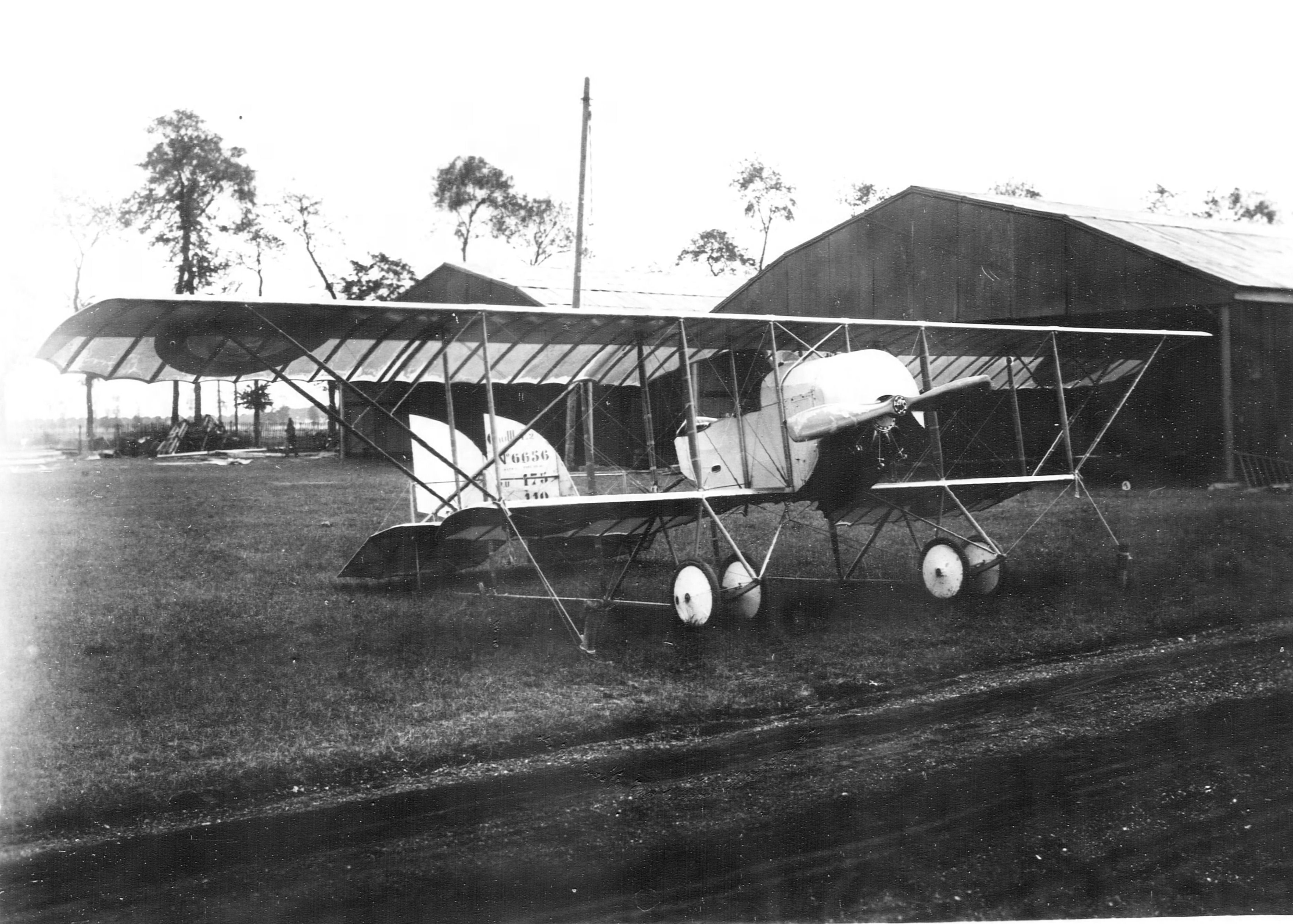 Caudron G.4 E2 at Air Service Production Center No. 2, Romorantin Aerodrome, France, 1918